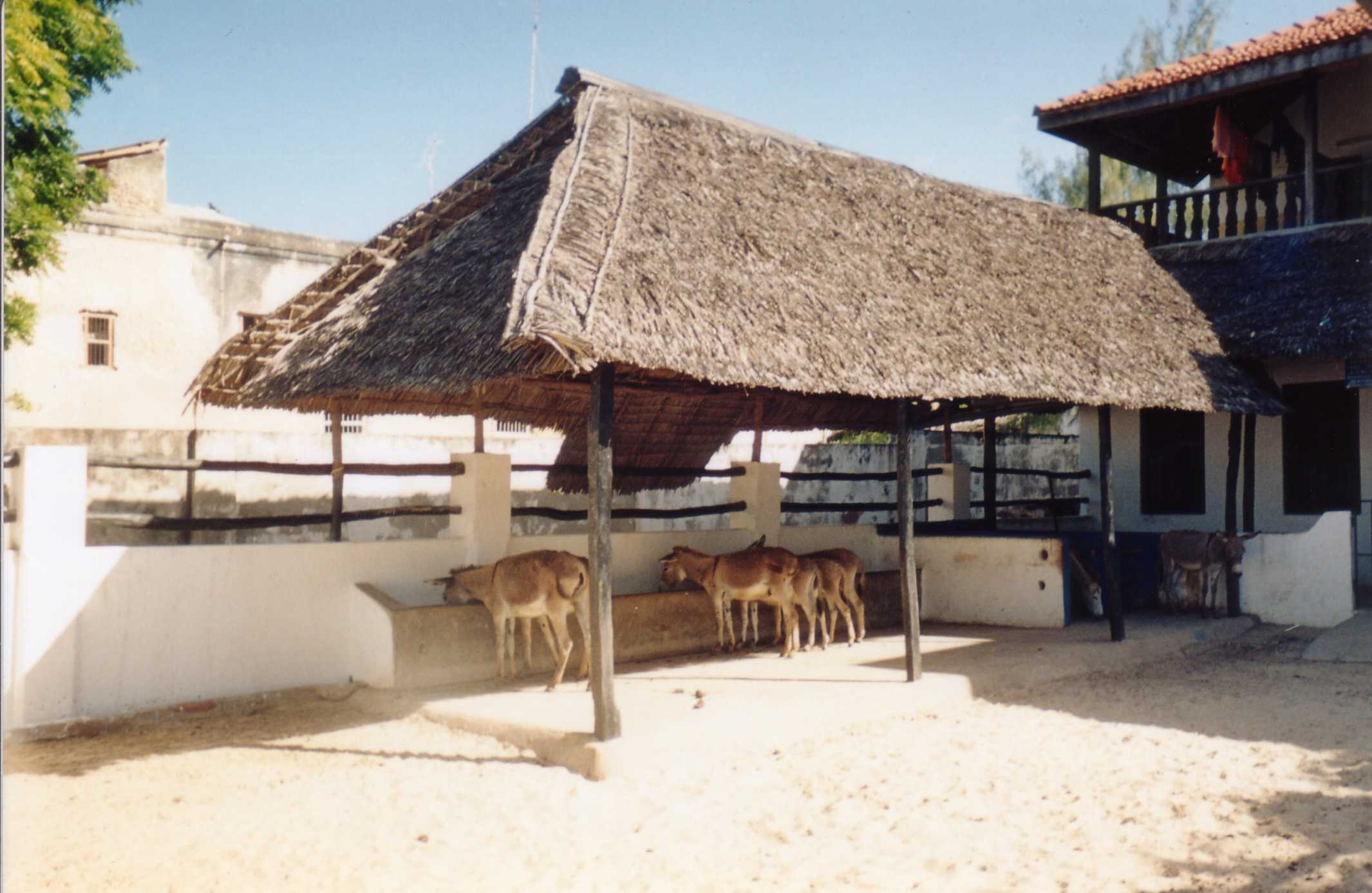 Feeding shelter for donkeys in Lamu, Kenya, taken by Kevin Borland, June 30, 2001